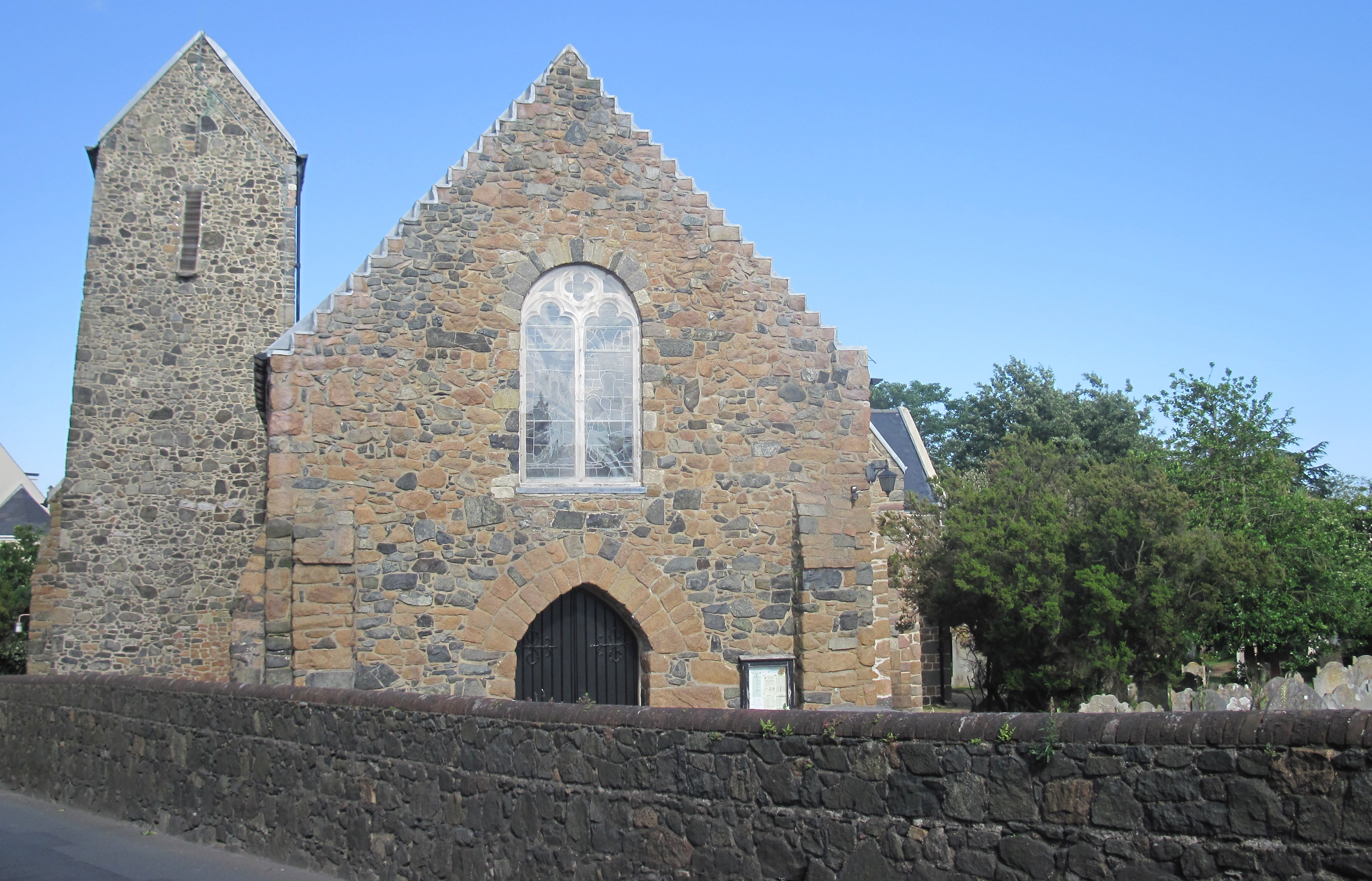 Saint Sampson, Guernsey Nrf: Saint Samsaon (Guernési)